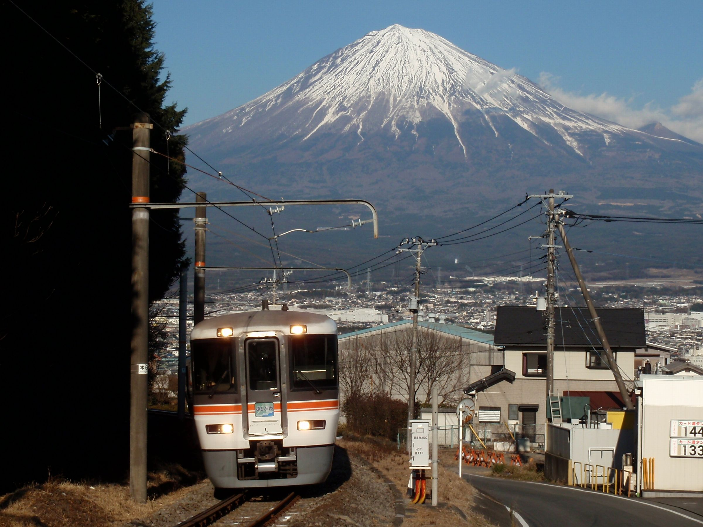 Central Japan Railway type 373 "Fujikawa" between Nishifujinomiya Sta. and Numakubo Sta.